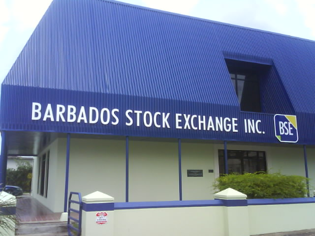 The Barbados Stock Exchange at 8th Avenue, Belleville, St. Michael (Site).